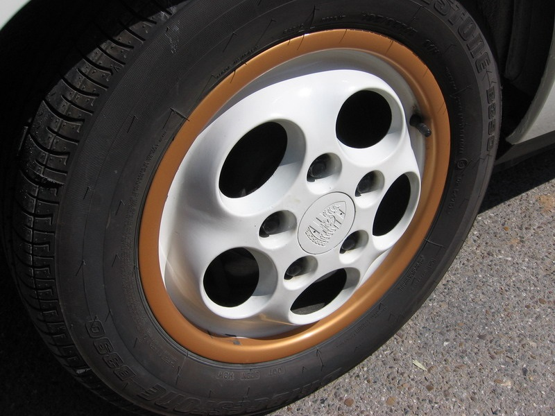 Porsche 924 Spirit (Spain - 1988)